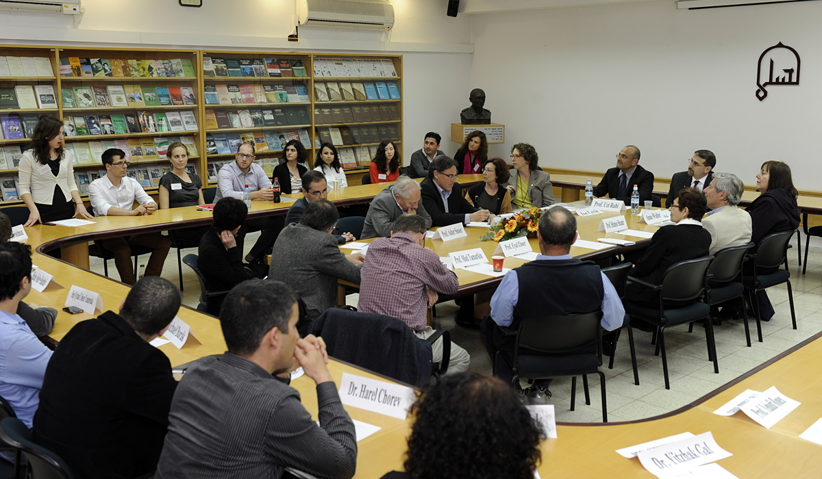 Ambassador Daniel Shapiro began his first official visit to Tel Aviv University with a tour of the Moshe Dayan Center’s state of the art multi-media room, where the research assistants monitor all TV broadcasts and exchange messages via Facebook with young people from all over the Arab and Muslim world. Dayan Center Director Prof. Uzi Rabi then hosted a discussion with world-class experts on Iran, Syria, Egypt, Palestine and Jordan, in an attempt to make some order in the regional chaos of the past year. In a meeting with the TAU President Prof. Joseph Klafter and Vice President Eran Rabani, they discussed TAU’s current educational and scientific exchanges and linkages with American institutions, and explored ways to find additional avenues of cooperation. Finally, in an International Forum, Ambassador Shapiro spoke about “Expanding the Israel-US Partnership in a Changing Middle East” with 200 students and English-Speaking Friends of TAU, responding to questions from the audience in English and fluent Hebrew.